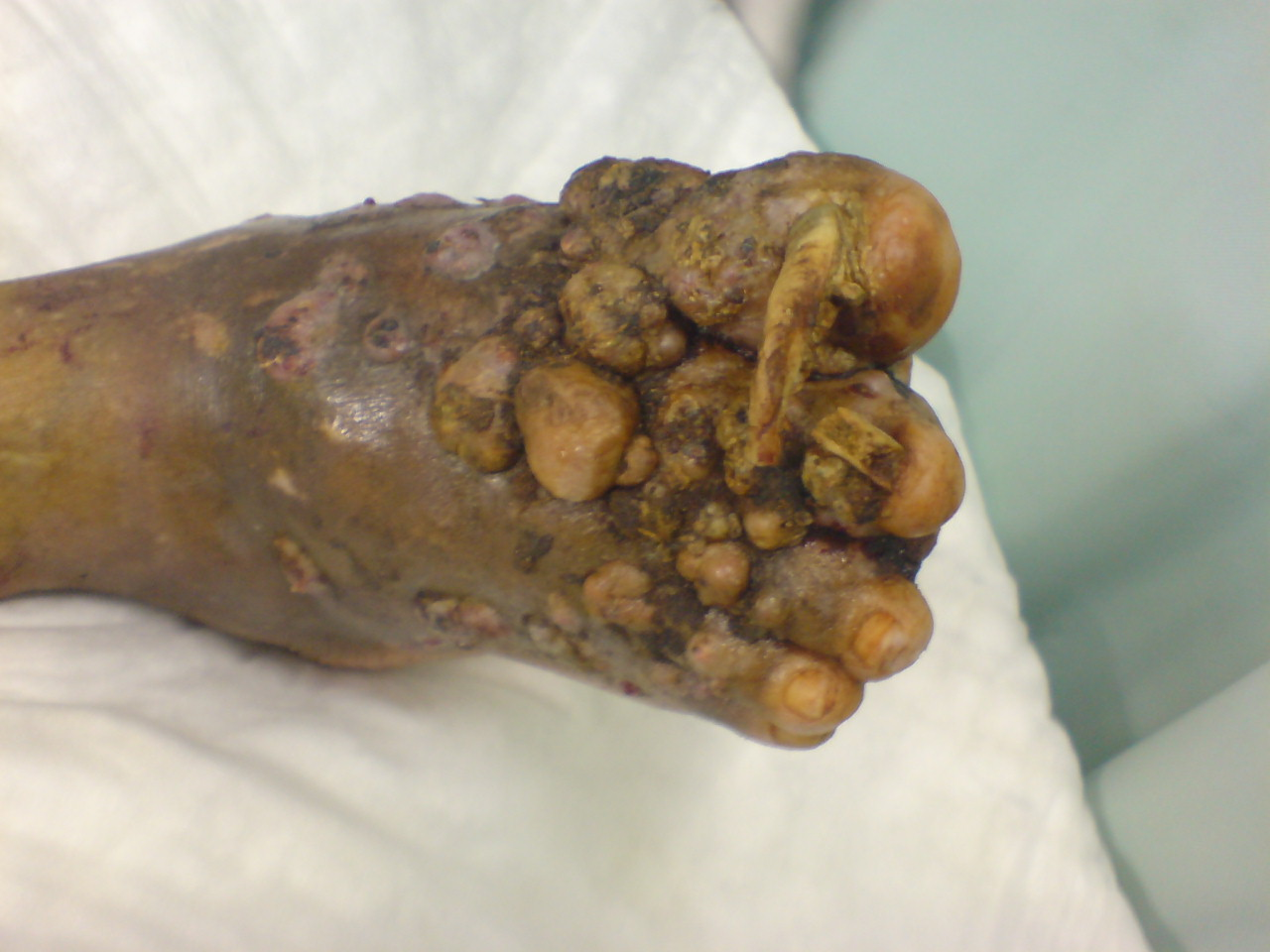 madura foot patient in King Saud Medical Complex. Riyadh. Saudia arabia